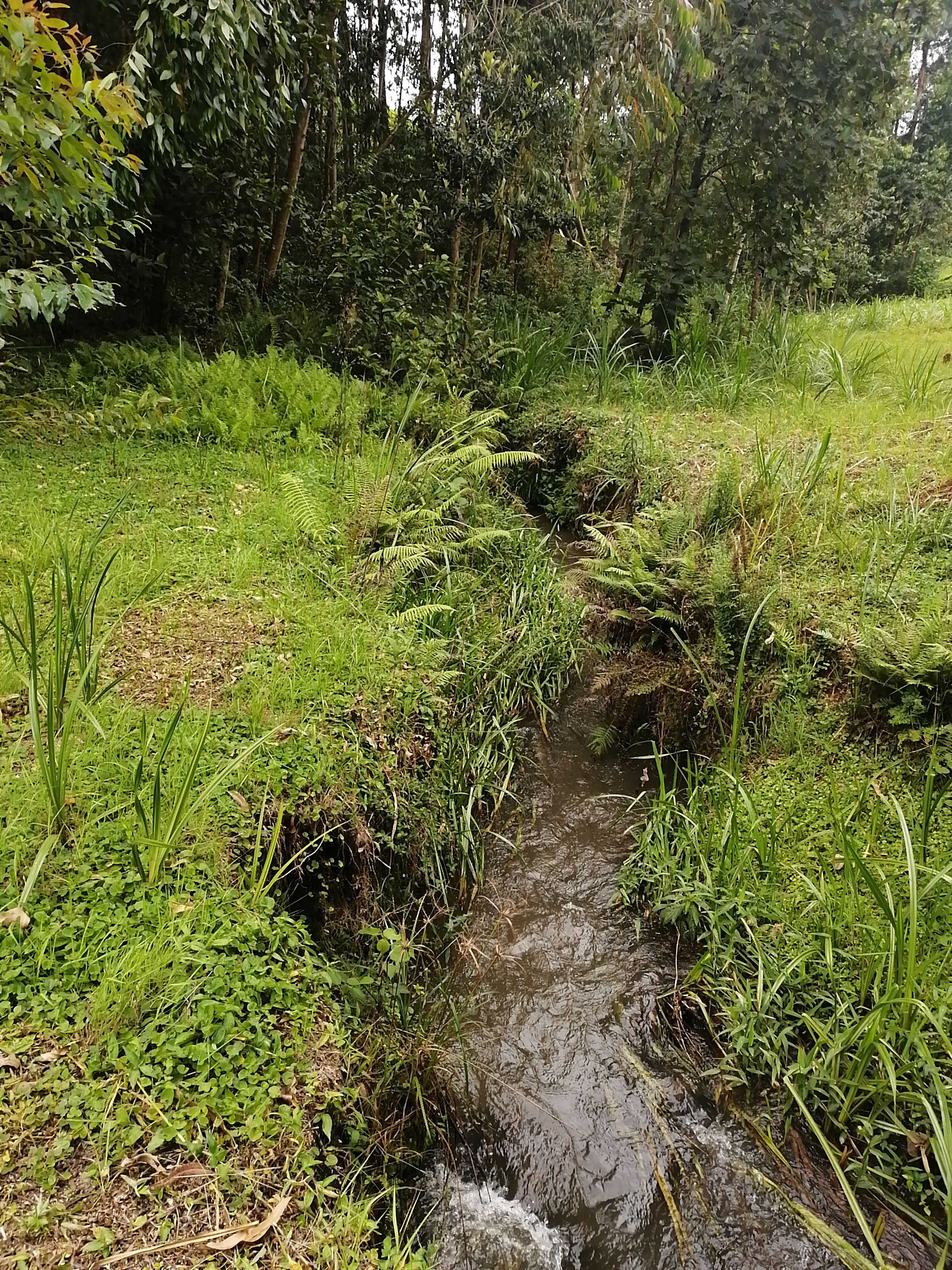 This is an image with the theme "Africa on the Move or Transport" from: Kenya